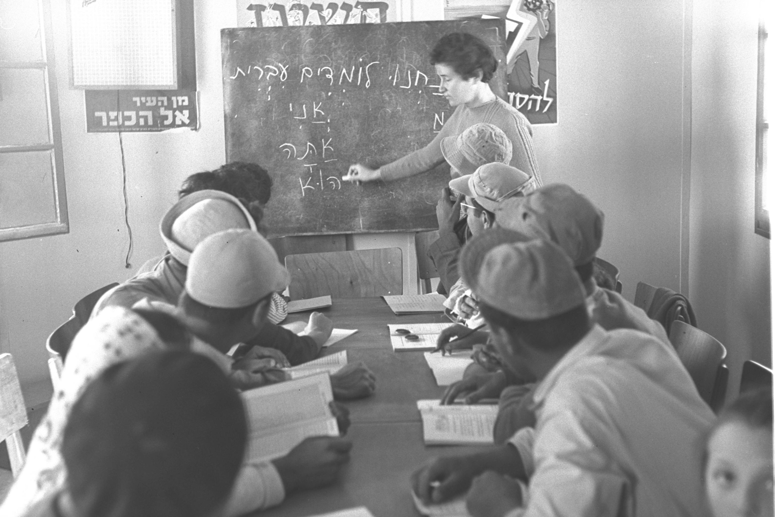 Original Description: RESIDENTS OF DIMONA STUDY HEBREW AFTER WORK. TEACHER IS FROM TEL AVIV AND NOW LIVES IN DIMONA.